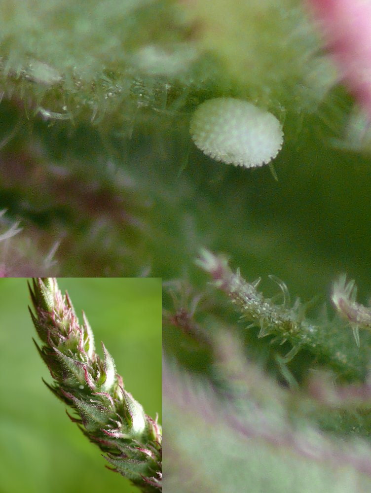 Egg of Holly Blue (Celastrina argiolus) on Purple loosestrife (Lythrum salicaria), Ebersberger Forst, Bavaria, Germany